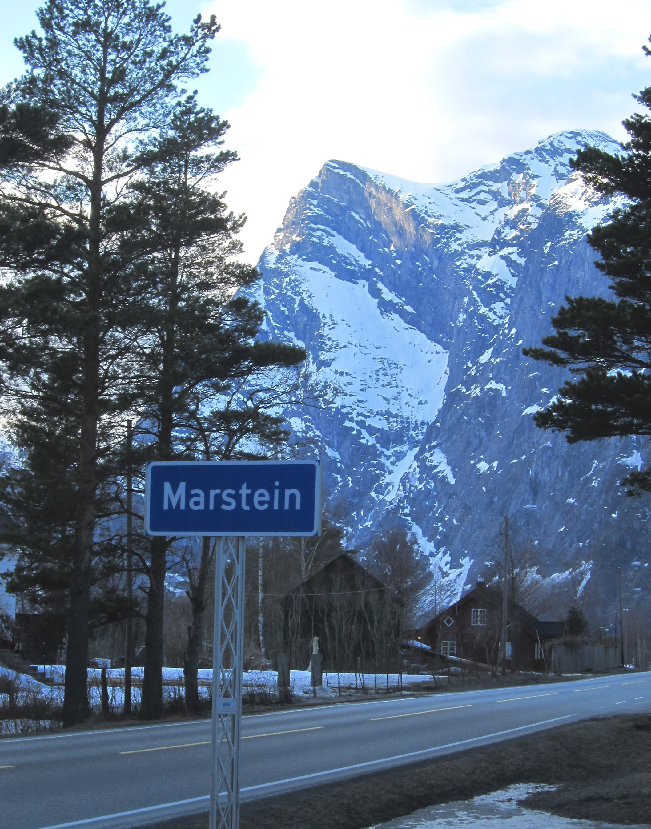 Romsdalen valley, Rauma, Norway, road E136 passing Marstein village, Romsdalshorn/Olaskardtind summits